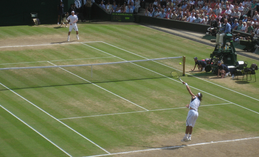 Roger Federer receives Rafael Nadal's serve during the final of the 2006 Wimbledon Championships